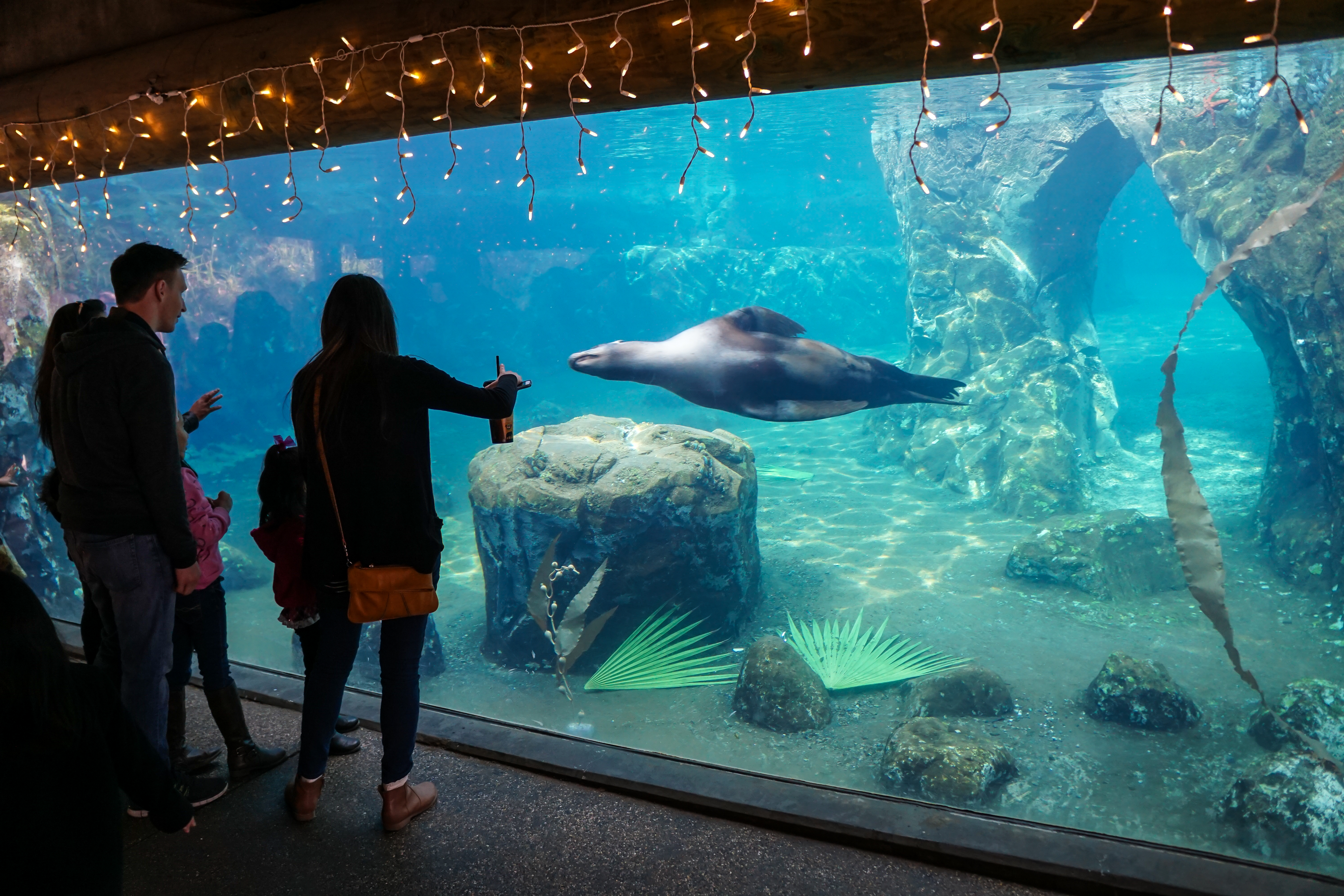 Visitors at Sea Lion Cove